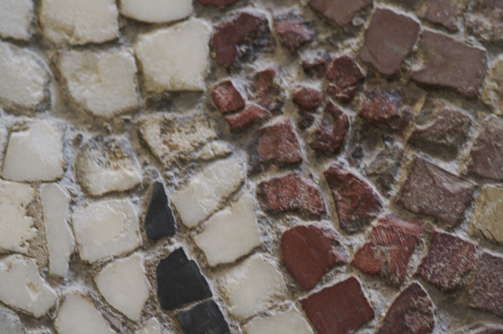 A hoard of photos from a day trip to London. We started in Greenwich at the Royal Observatory, and then spent most of the evening at the British Museum. These are uncleaned and unedited; all I've done is shrunk to make it faster to upload them. I'll post some of my faves to my "real" Flickr account as time and mood permits. A hoard of photos from a day trip to London. We started in Greenwich at the Royal Observatory, and then spent most of the evening at the British Museum. These are uncleaned and unedited; all I've done is shrunk to make it faster to upload them. I'll post some of my faves to my "real" Flickr account as time and mood permits.